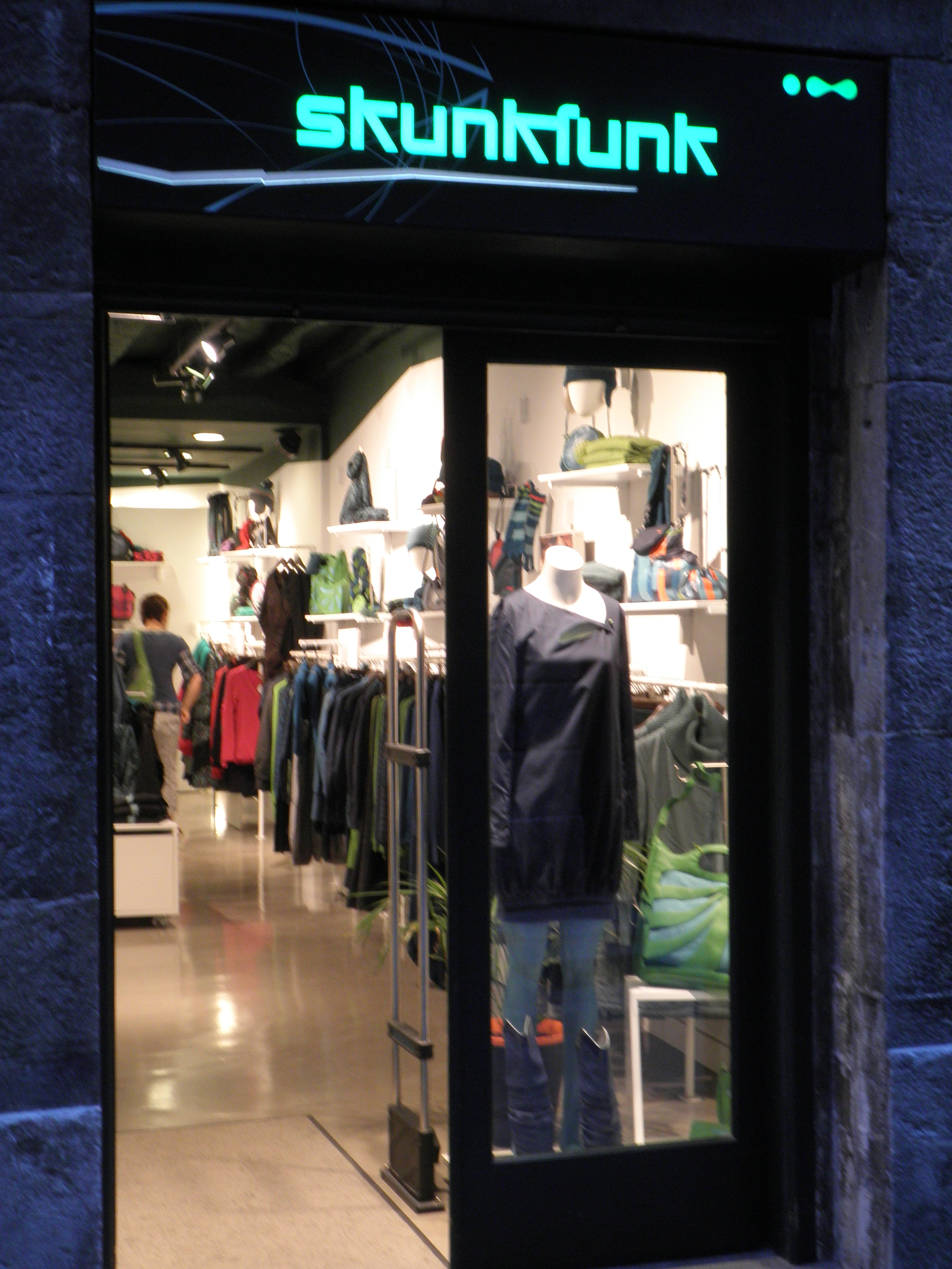 Skunkfunk clothing brand shop in Tolosa.